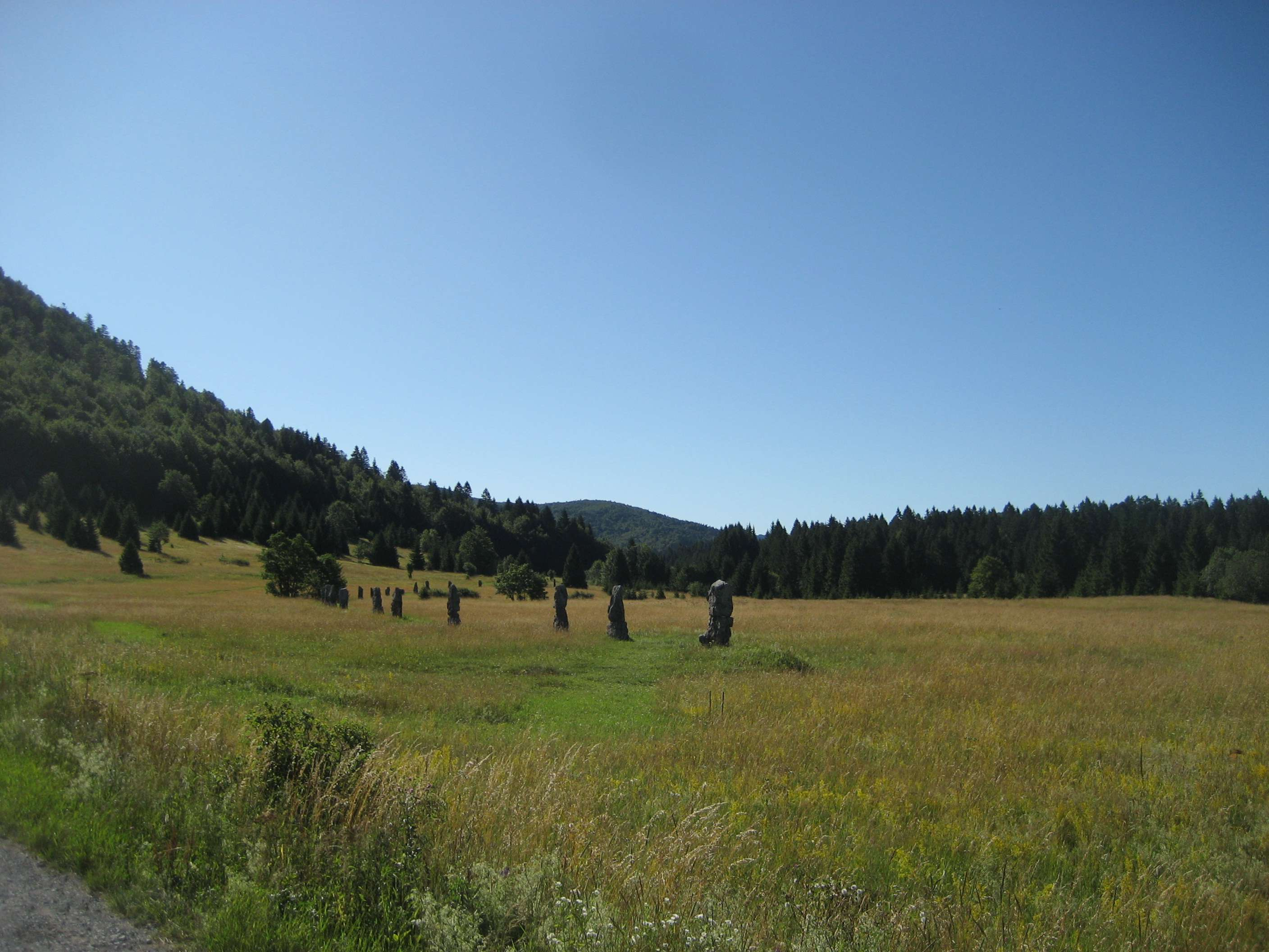 Matic Poljana, Gorski Kotar, Croatia